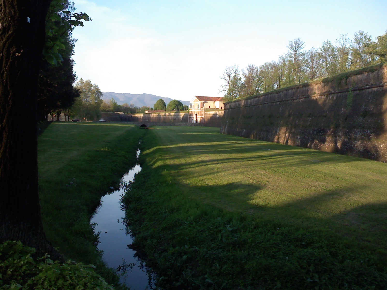 Picture of the exterior of Gate San Donato, in Lucca Italy